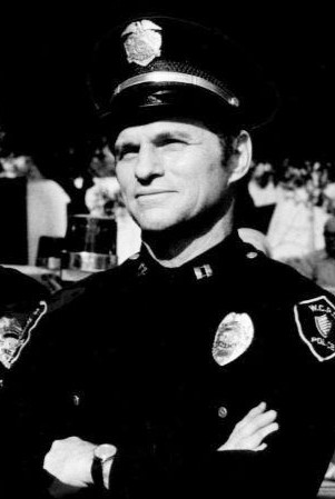 Photo of the cast of the short-lived television program Chopper One. From left: Dirk Benedict, Ted Hartley, Jim McMullan.